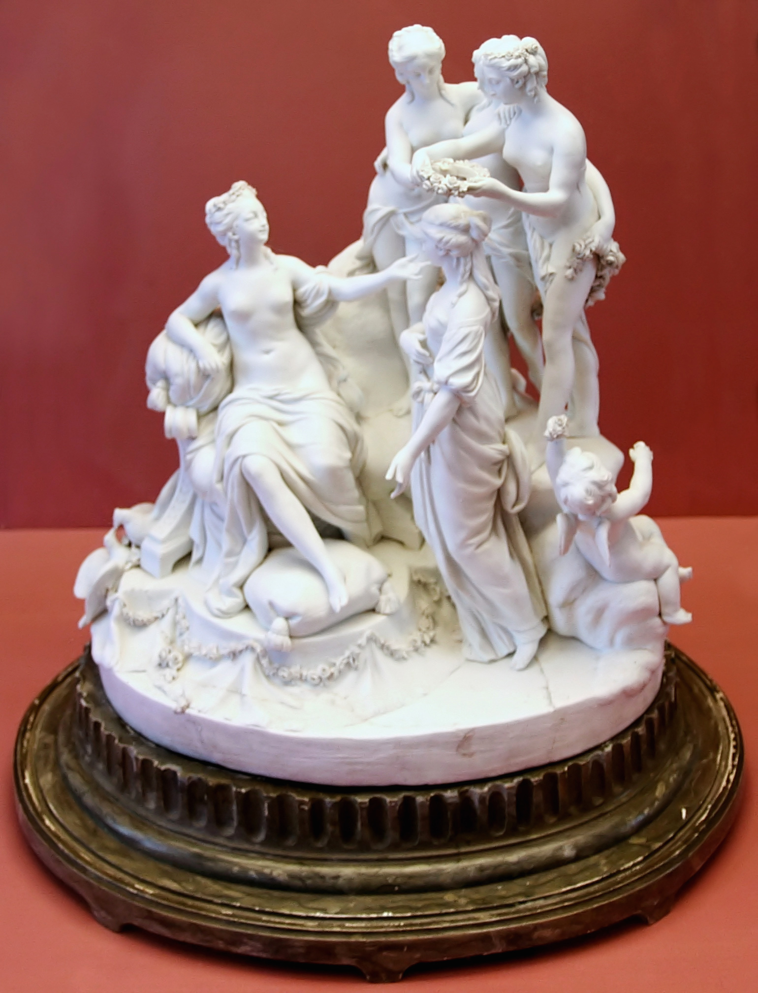 Vénus faisant couronner la Beauté par les Grâces (Venus having Beauty crowned by the Graces). Hard-paste biscuit, Royal Porcelain Factory of Sèvres, late 18th century.